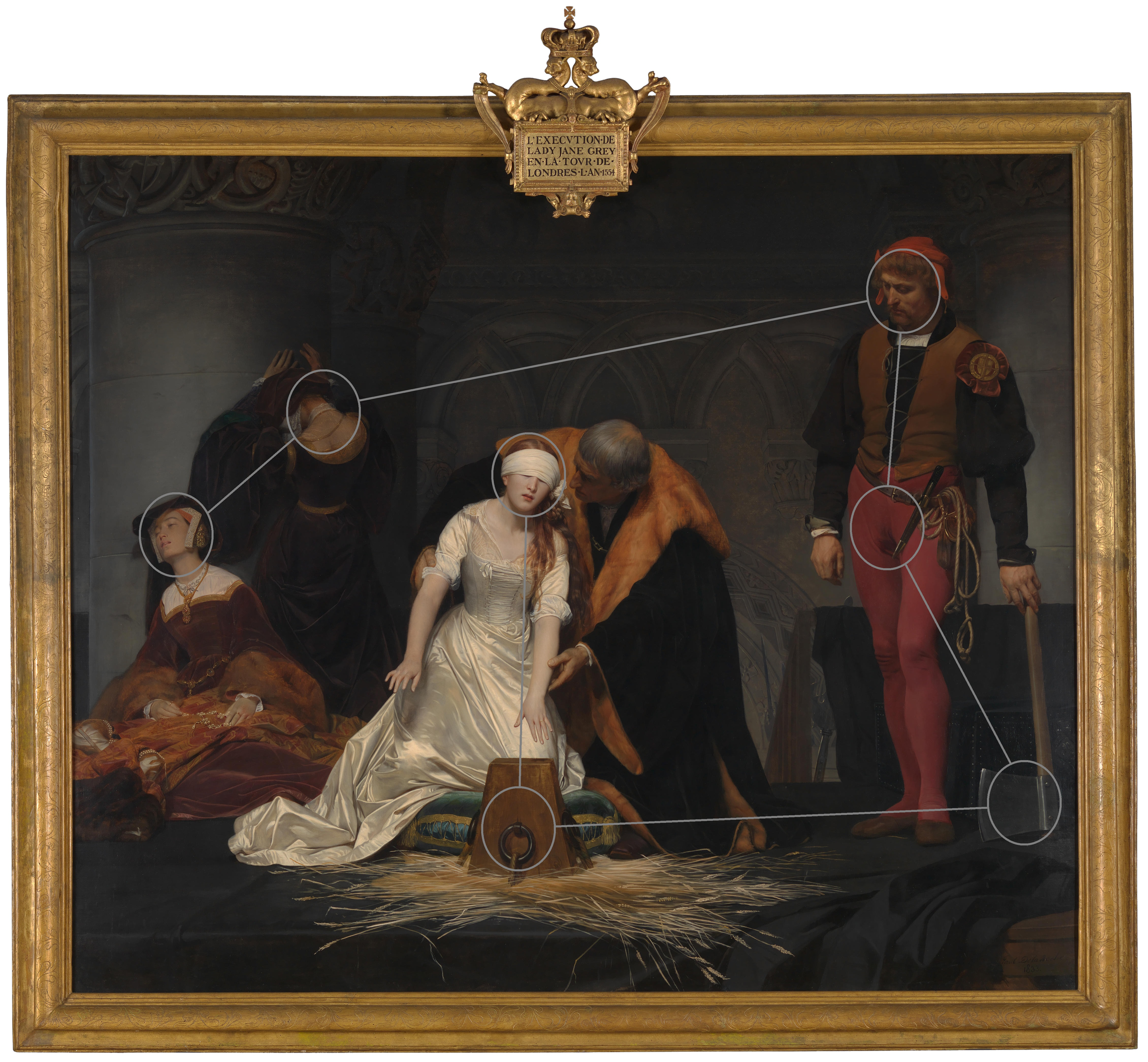 Visual experiment.